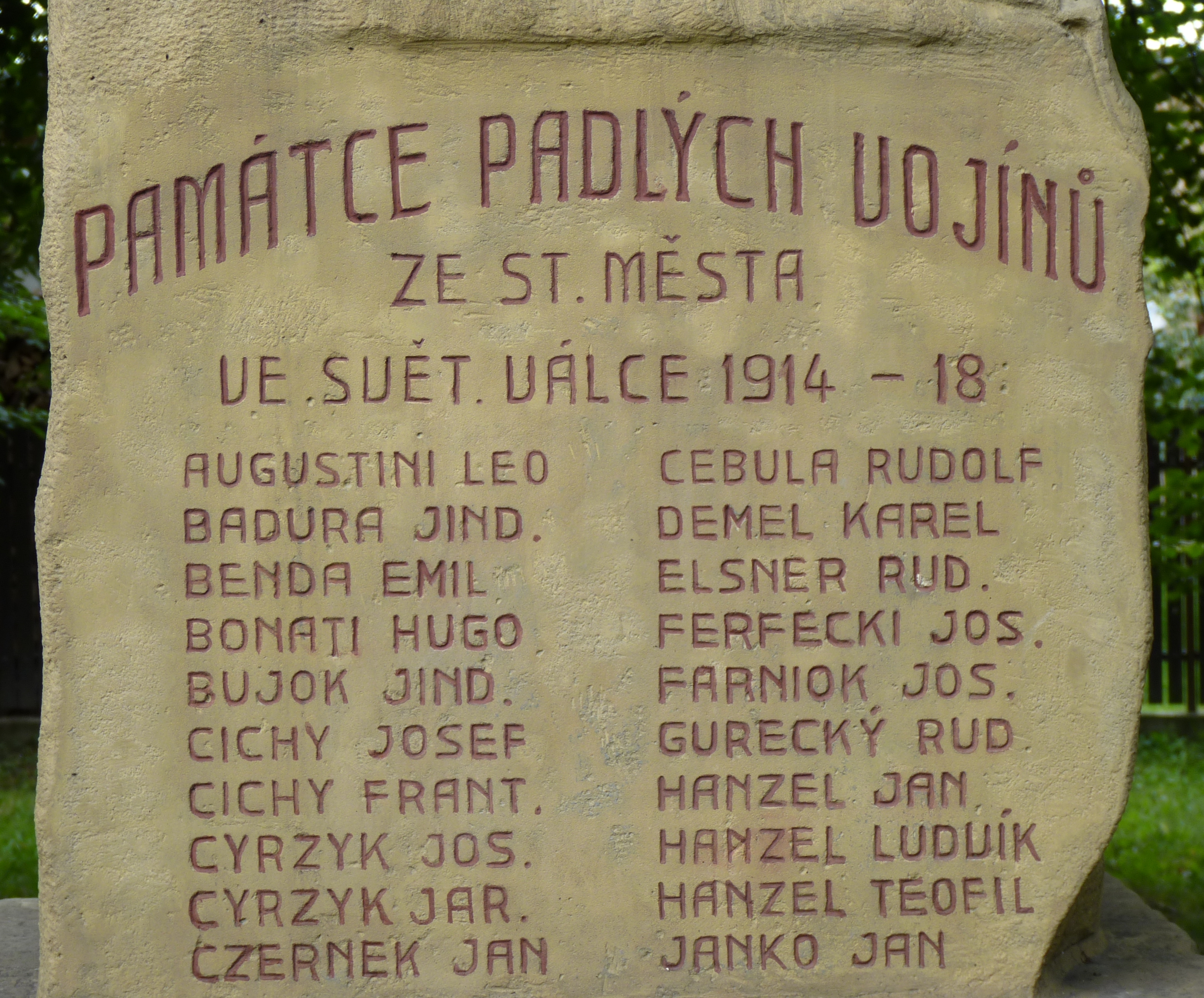 World War memorial in Staré Město. Karviná, Karviná District, Moravian-Silesian Region, Czech Republic